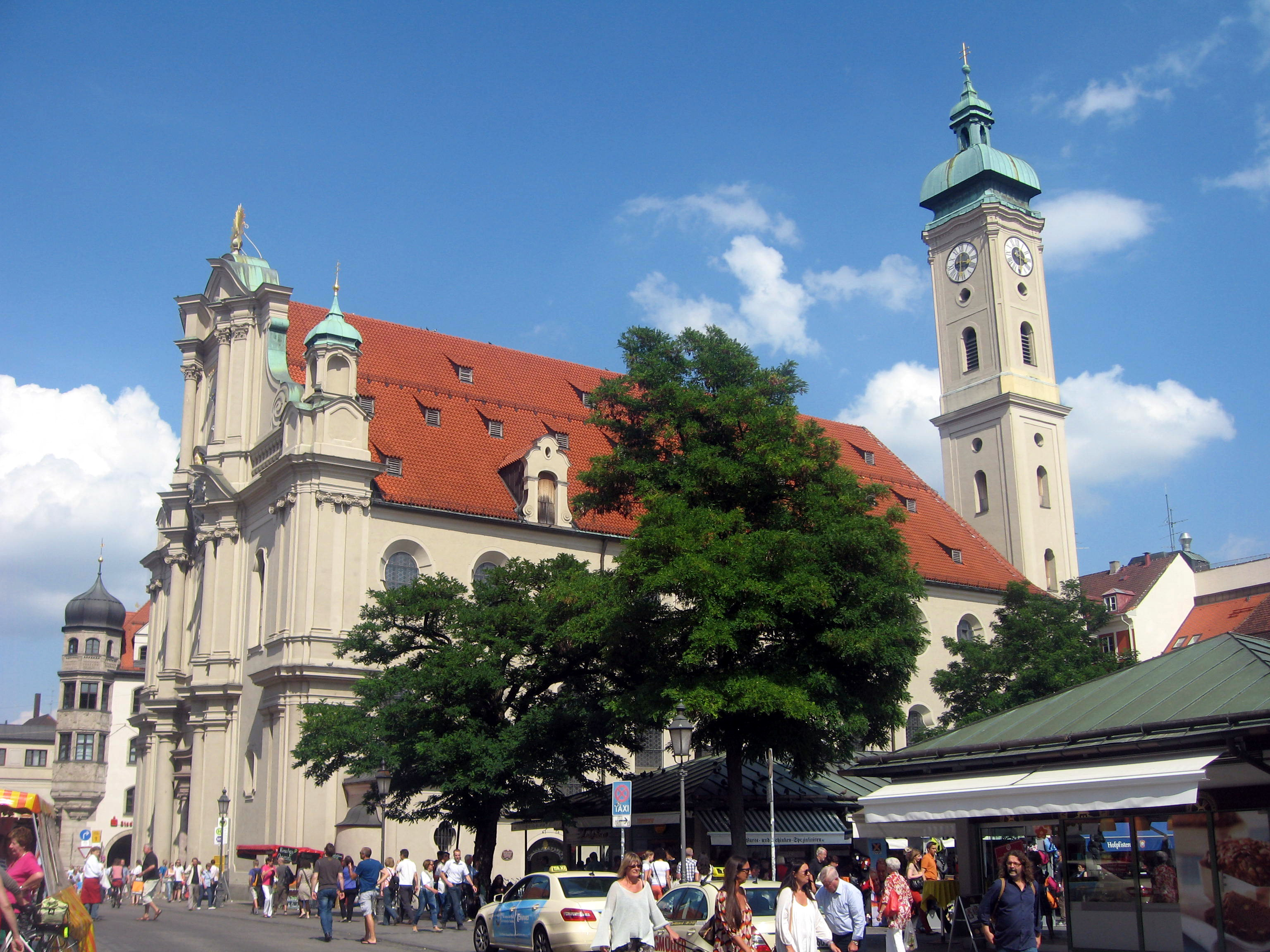 Heiliggeistkirche (Munich)